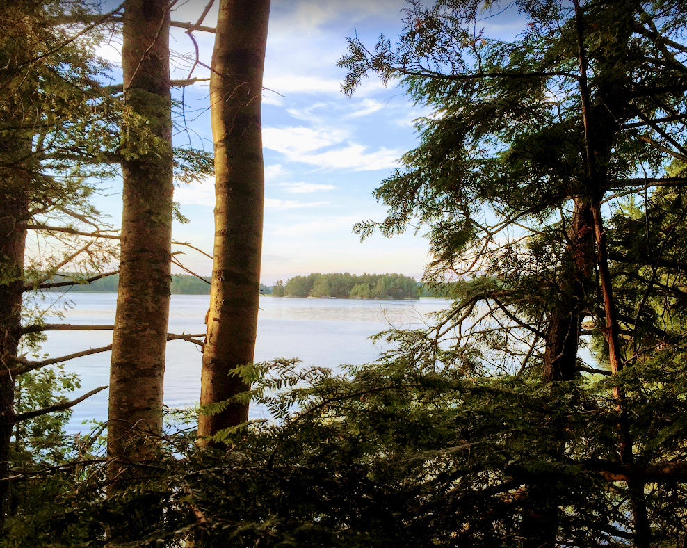 A view of Whiskeag Creek from "The Narrows Trail" at Thorne Head Preserve, Bath Maine, USA.